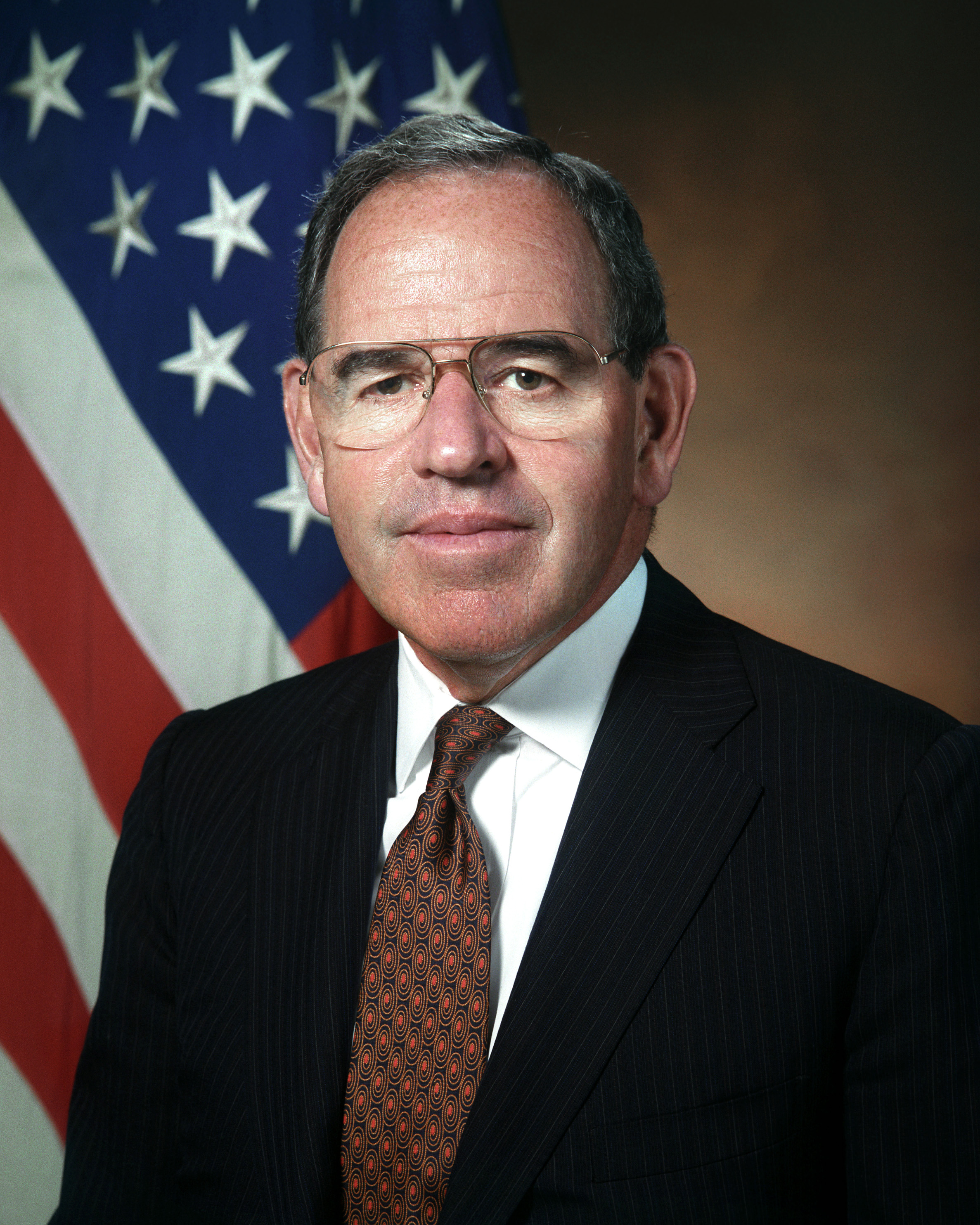 Still Image: DA-SC-07-44943 Portrait of DoD Mr. John P. White, Chairman, Commission on Roles and Missions of the Armed Services, Office of the Secretary of Defense. (U.S. Army photo by Mr. Scott Davis) (Released) (PC-192321)